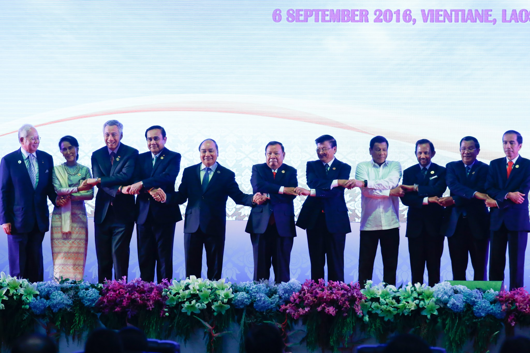 President Rodrigo Duterte joins other heads of states on stage during the opening ceremony of the ASEAN Summit at the National Convention Center in Vientiane, Laos on September 6.